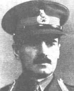 Sir Archibald Nye